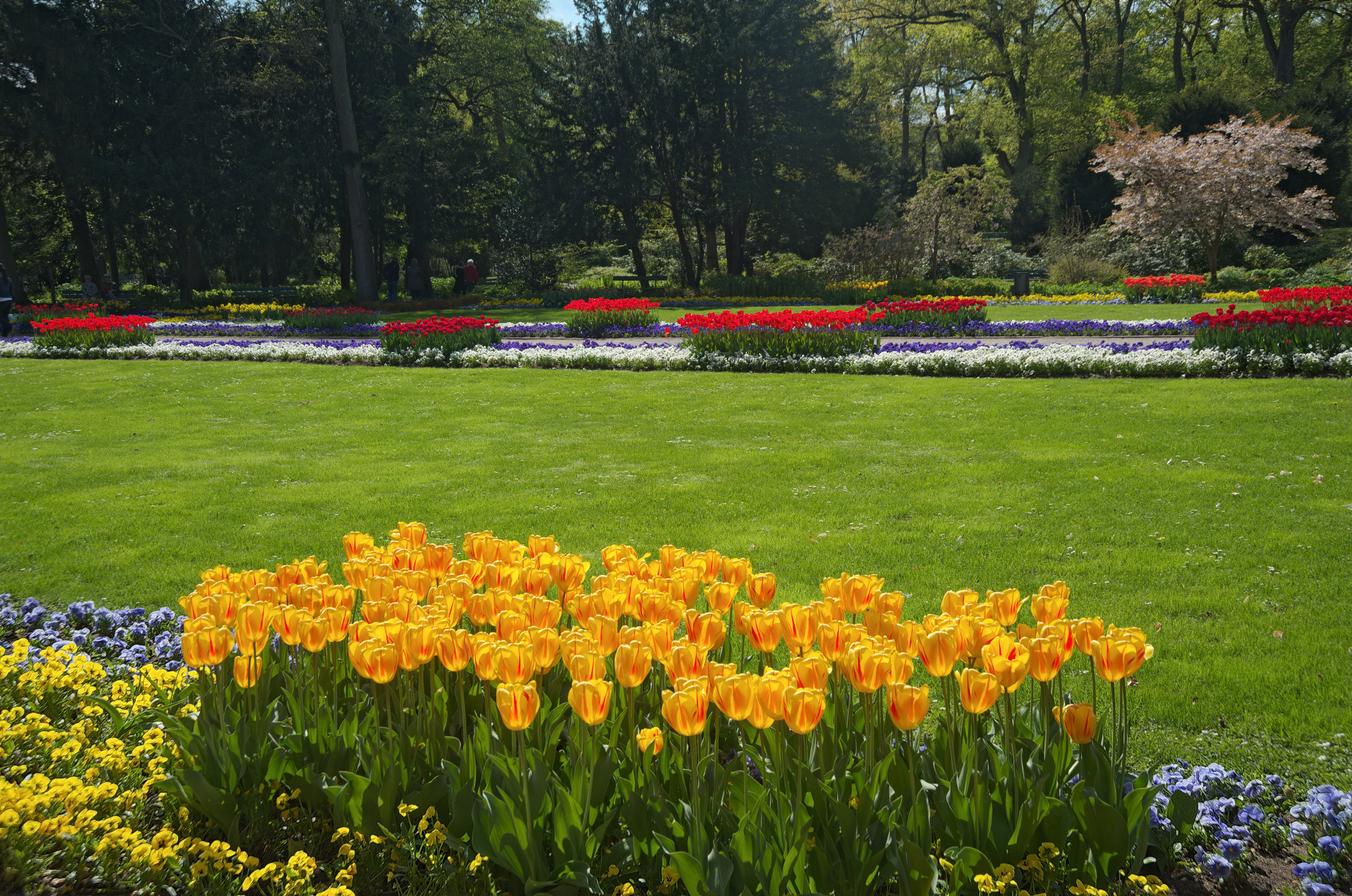 botanical garden Bamberg, situated in the public park Hain